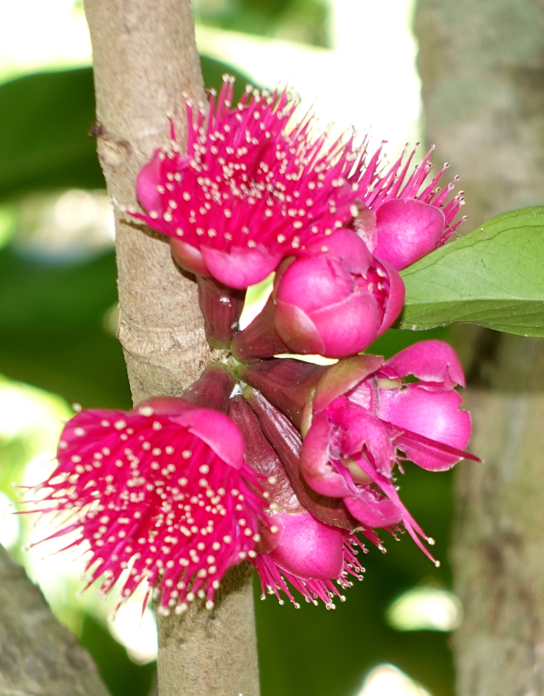 Botanical specimen in the Naples Botanical Garden - Naples, Florida, USA.